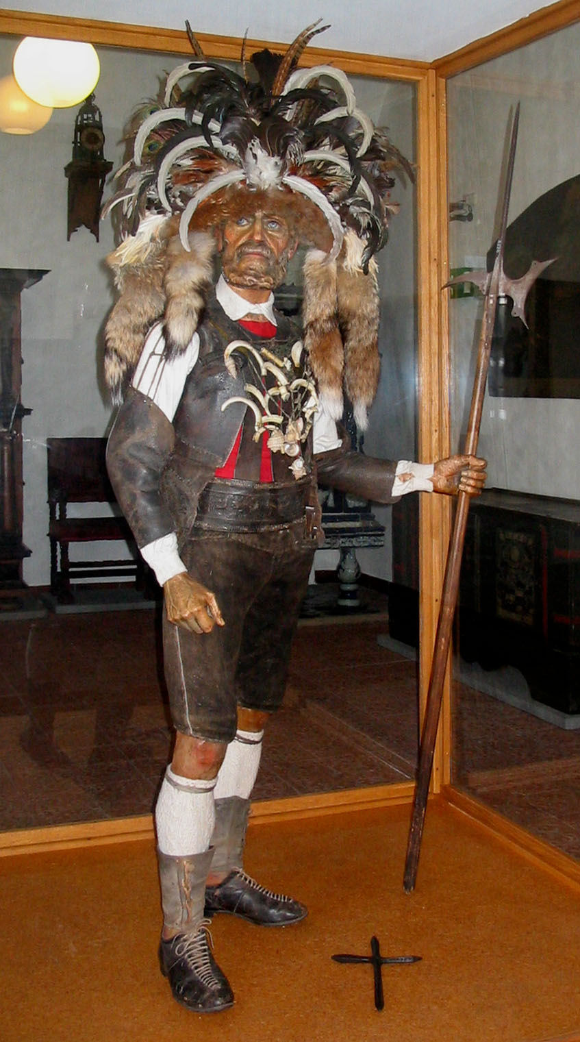 Saltner (guardian of vineyards in South Tyrol) in festive costume, 19th century. The [standard equipment] wroughtiron cross laying at his feet was not only for spiritual protection, but would also be used as a weapon, in case of emergency (says museum's note).